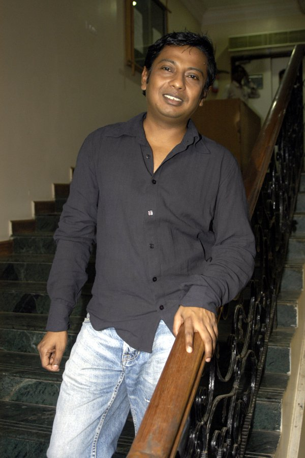 Dark haired man in grey button-down shirt and jeans standing on stairs.